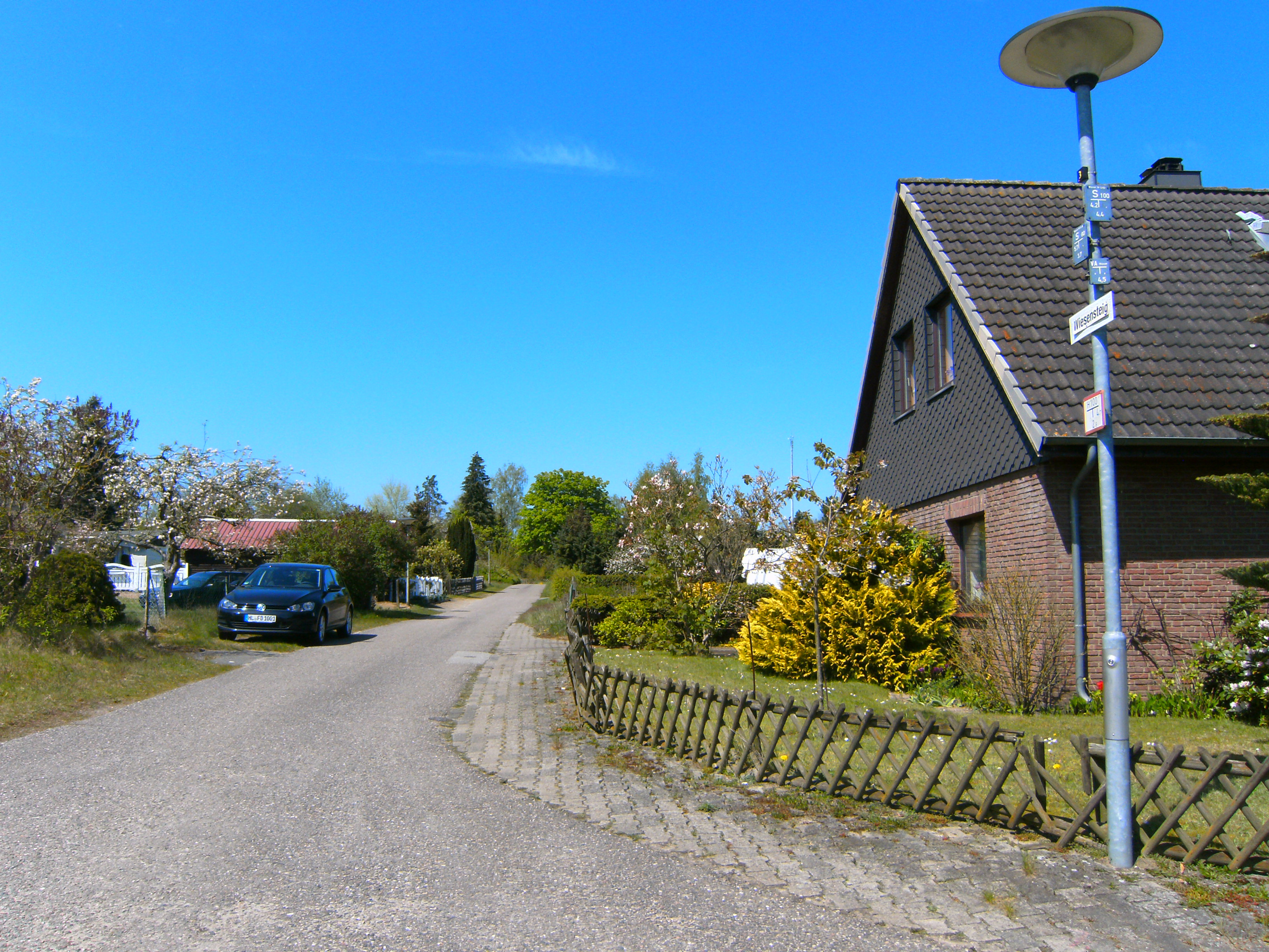 Lübeck, Germany: Herreninsel, Straße Wiesensteig (street).